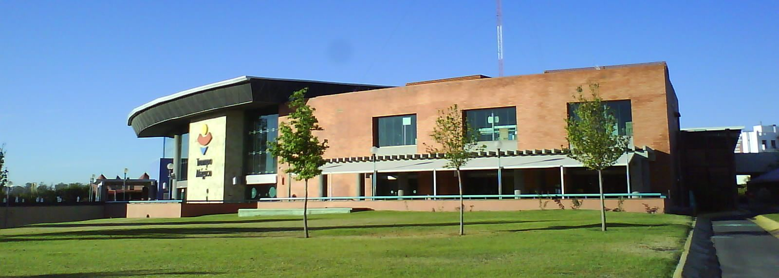 Facade of the Trompo Magico Museum — in Zapopan, metro Guadalajara, Jalisco state.